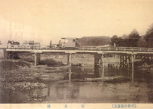 Abolished railway in Japan,Akayu Jinsha Tramway（赤湯人車軌道）.